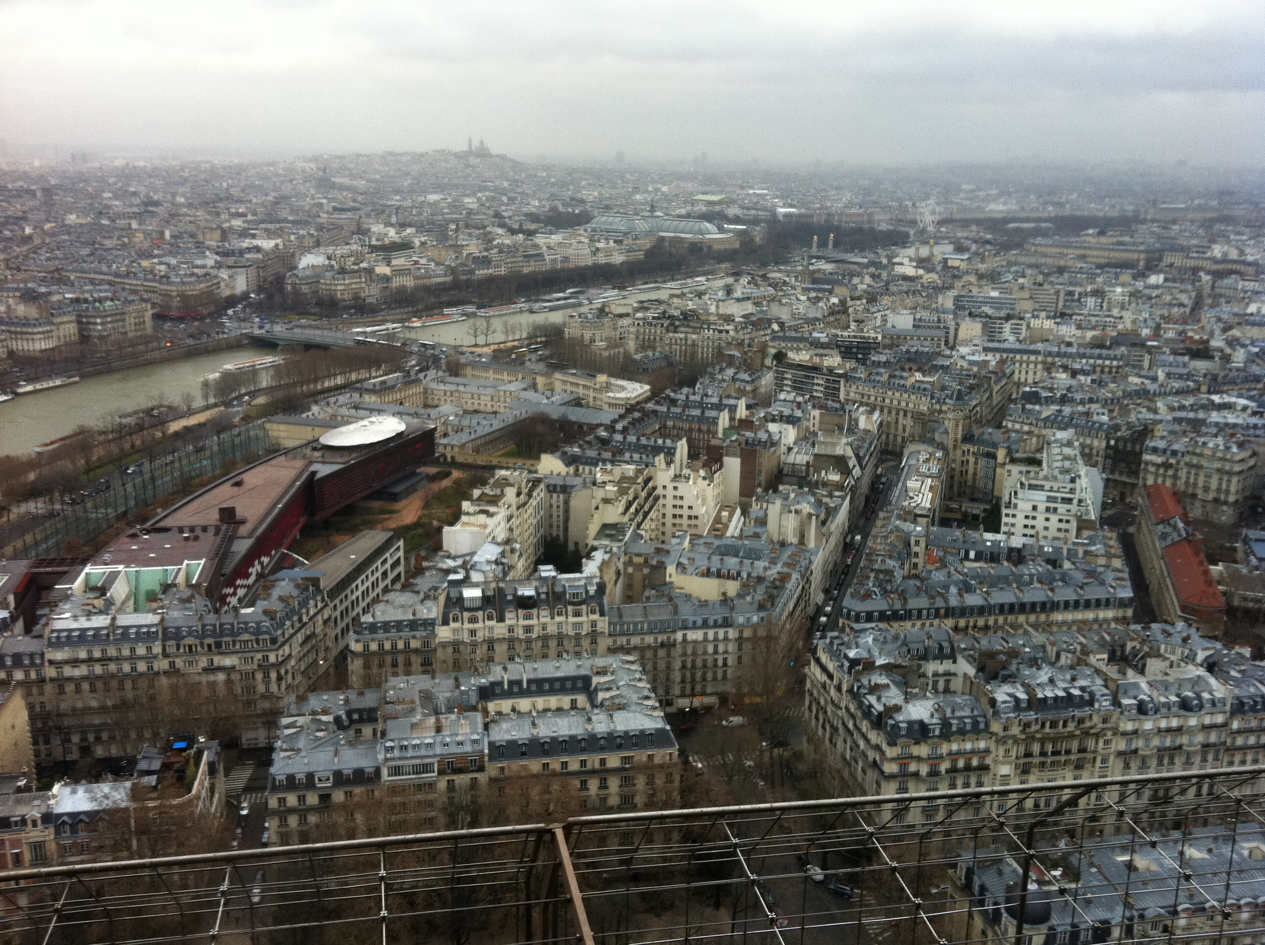 Paris view from Eiffel Tower